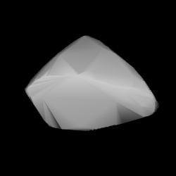 3D convex shape model of 1809 Prometheus, computed using light curve inversion techniques. J. Hanuš, J. Ďurech, M. Brož, B. D. Warner (June 2011). "A study of asteroid pole-latitude distribution based on an extended set of shape models derived by the lightcurve inversion method". Astronomy and Astrophysics 530: A134. ISSN 0004-6361. arXiv